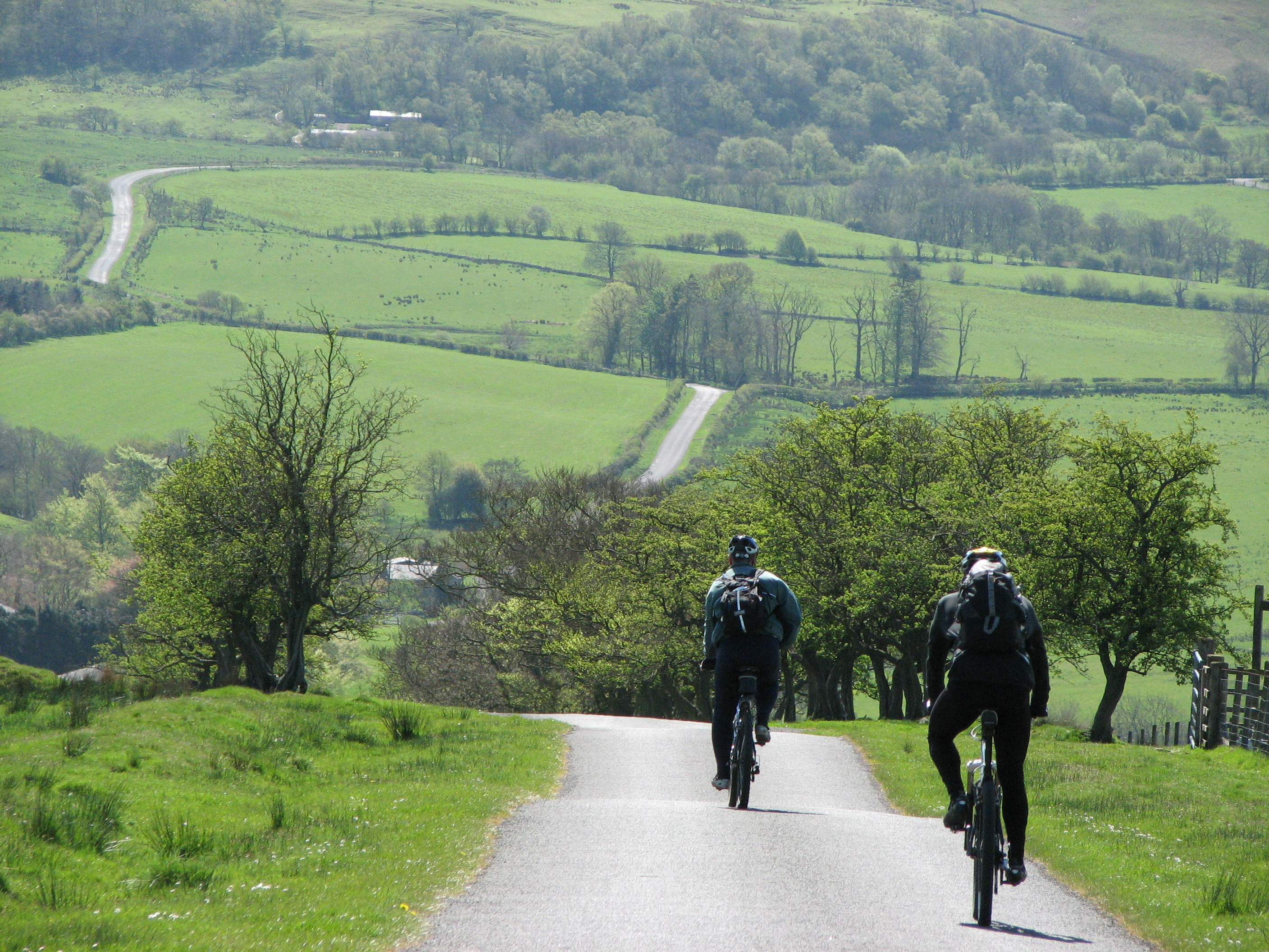 Afdaling naar Bewcastle.